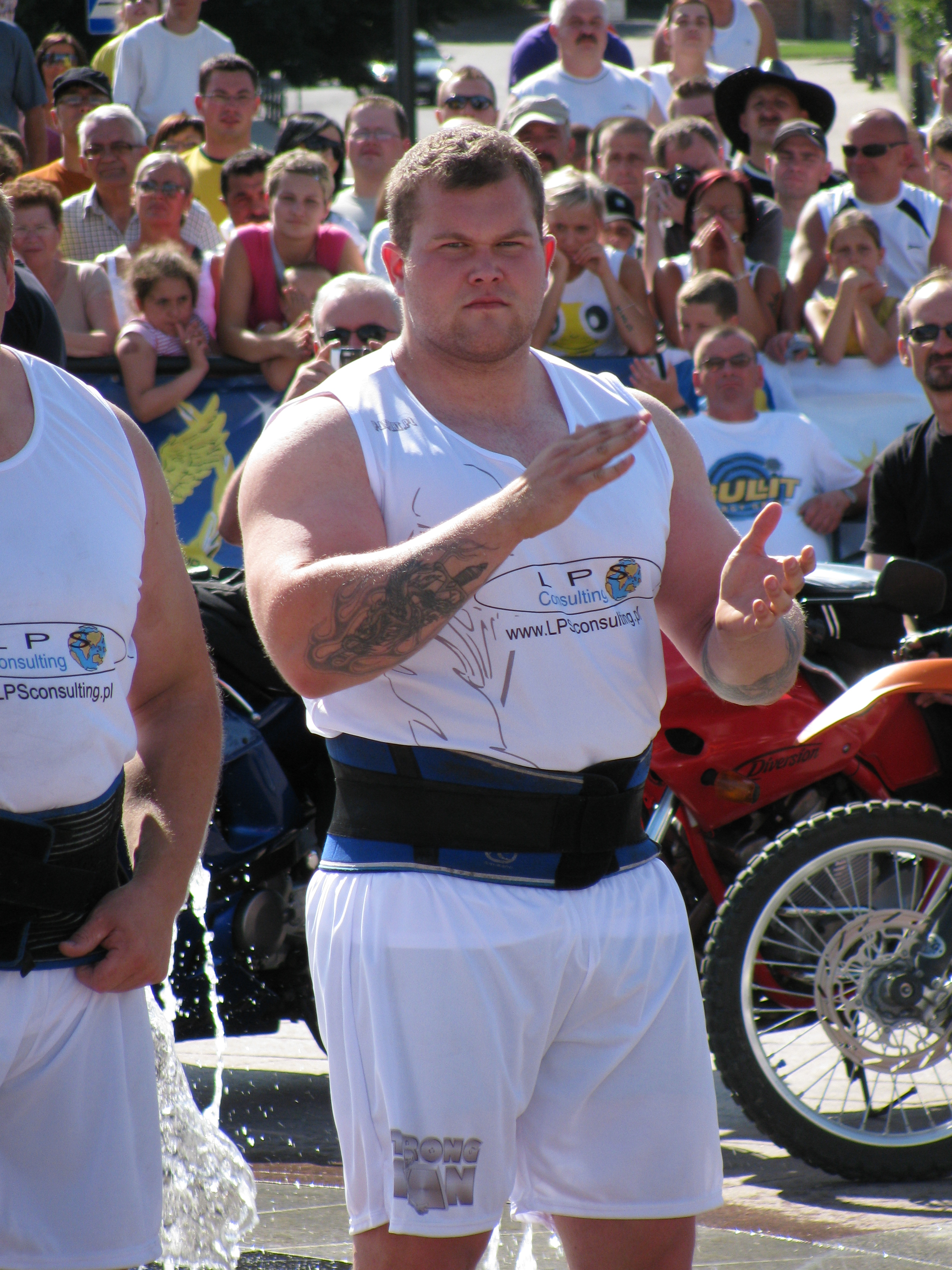 Stefán Sölvi Pétursson - a strength athlete from Iceland.